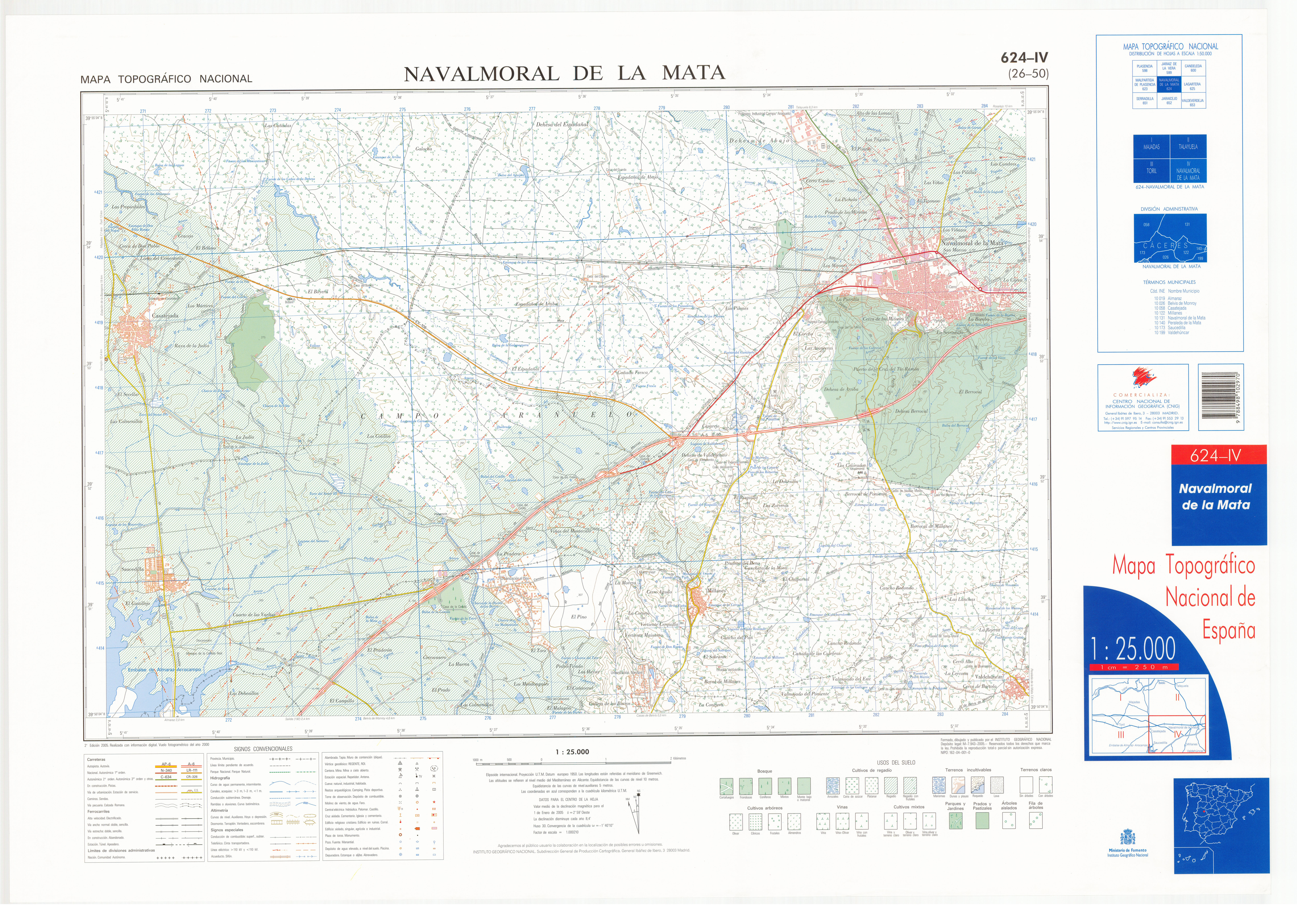 Fragment 0624c4 of the National Topographic Map of Spain in 2005 at a scale of 1:25000 printed and scanned with a resolution of 250 ppi. It shows Navalmoral de la Mata.